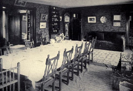 Dining Room of the home of Henry Demerest Lloyd, muckracking journalist, from Chicago. Lived in Winnetka, where his house "The Wayside" is a National Historic Landmark. The photo is from a biography written by his daughter in 1912 "Henry Demerest Lloyd, A Biography, 1847-1903 by Caro Lloyd, Putnam, New York and London, 1912" available at above website. Out of copyright